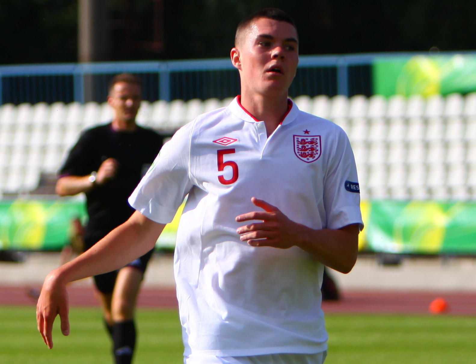 Michael Keane playing for England U-19